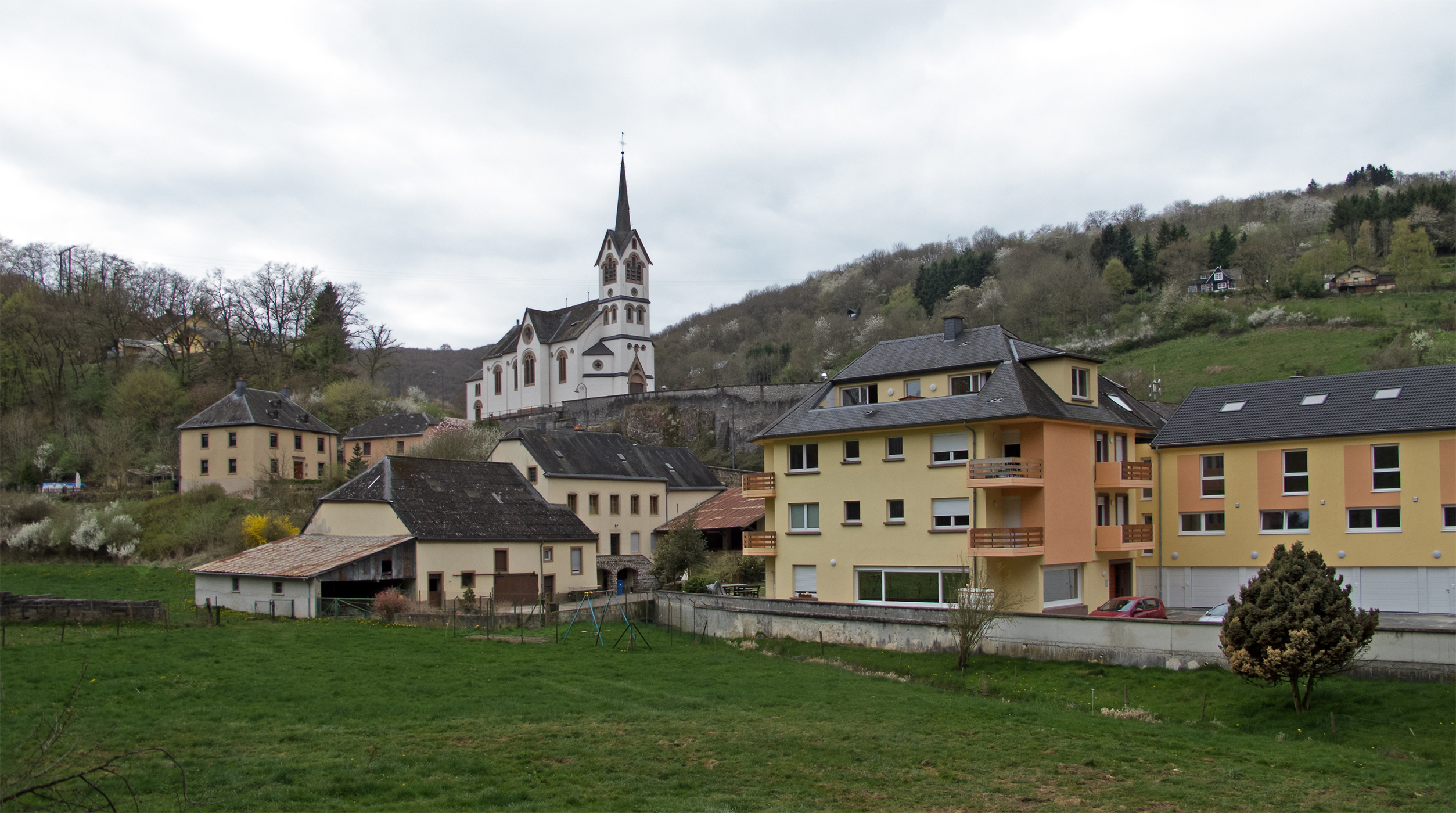 Vue on Welscheid, Luxembourg, from the south